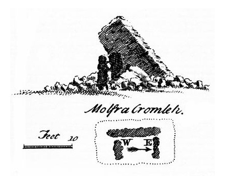 Mulfra Quoit - Morvah - Cornwall - UK